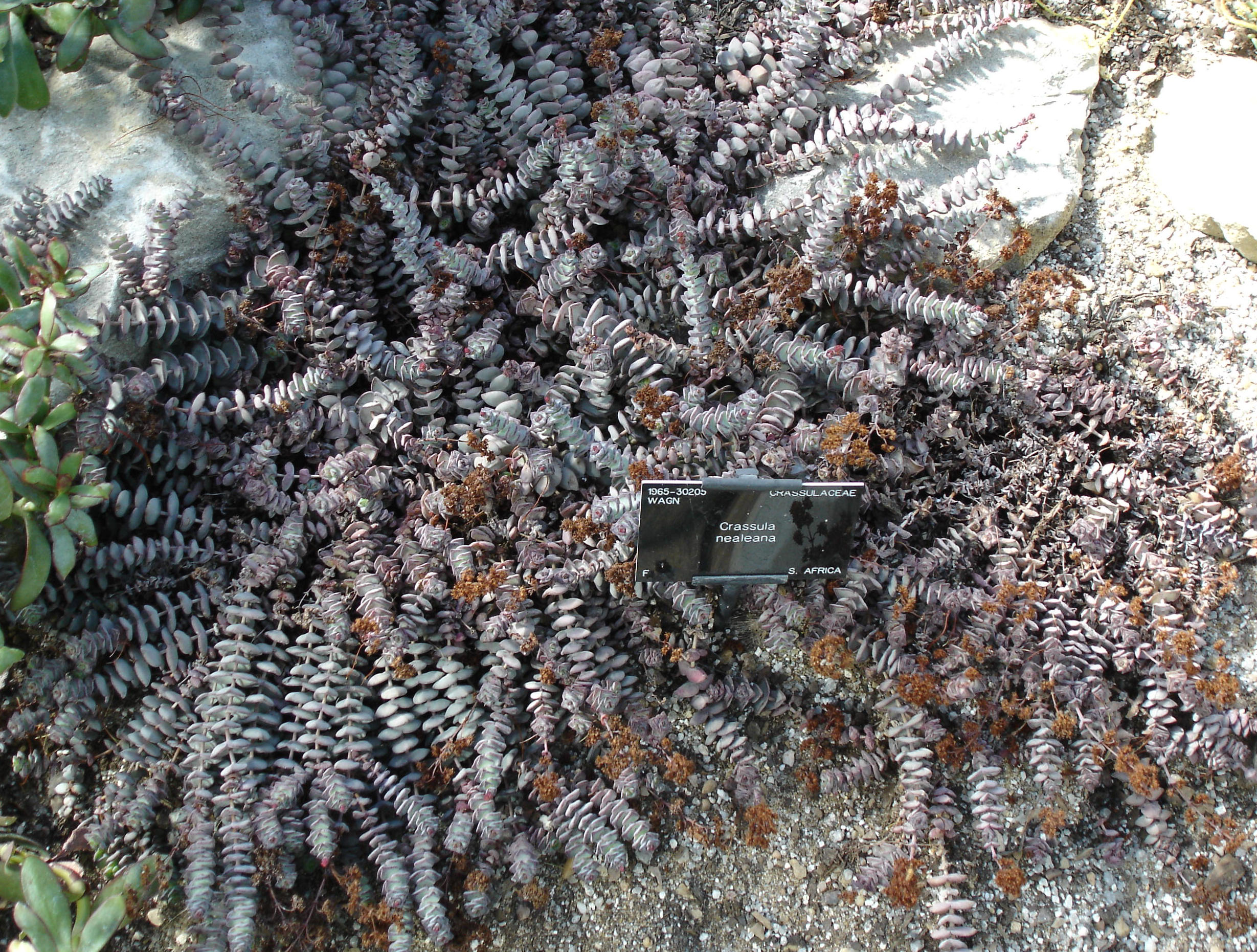 Royal Botanic Gardens, Kew, August 2005